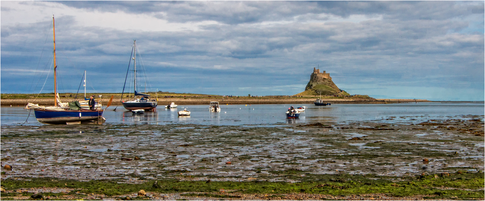 500px provided description: View across to the Castle on Holy Island with all the boats and people left in. Thank you for viewing my images. [#sky ,#boat ,#religion ,#england ,#castle ,#Sea ,#Boats ,#Ocean ,#Northumberland ,#North ,#Yacht ,#Mud ,#Holy Island ,#Lindisfarne]